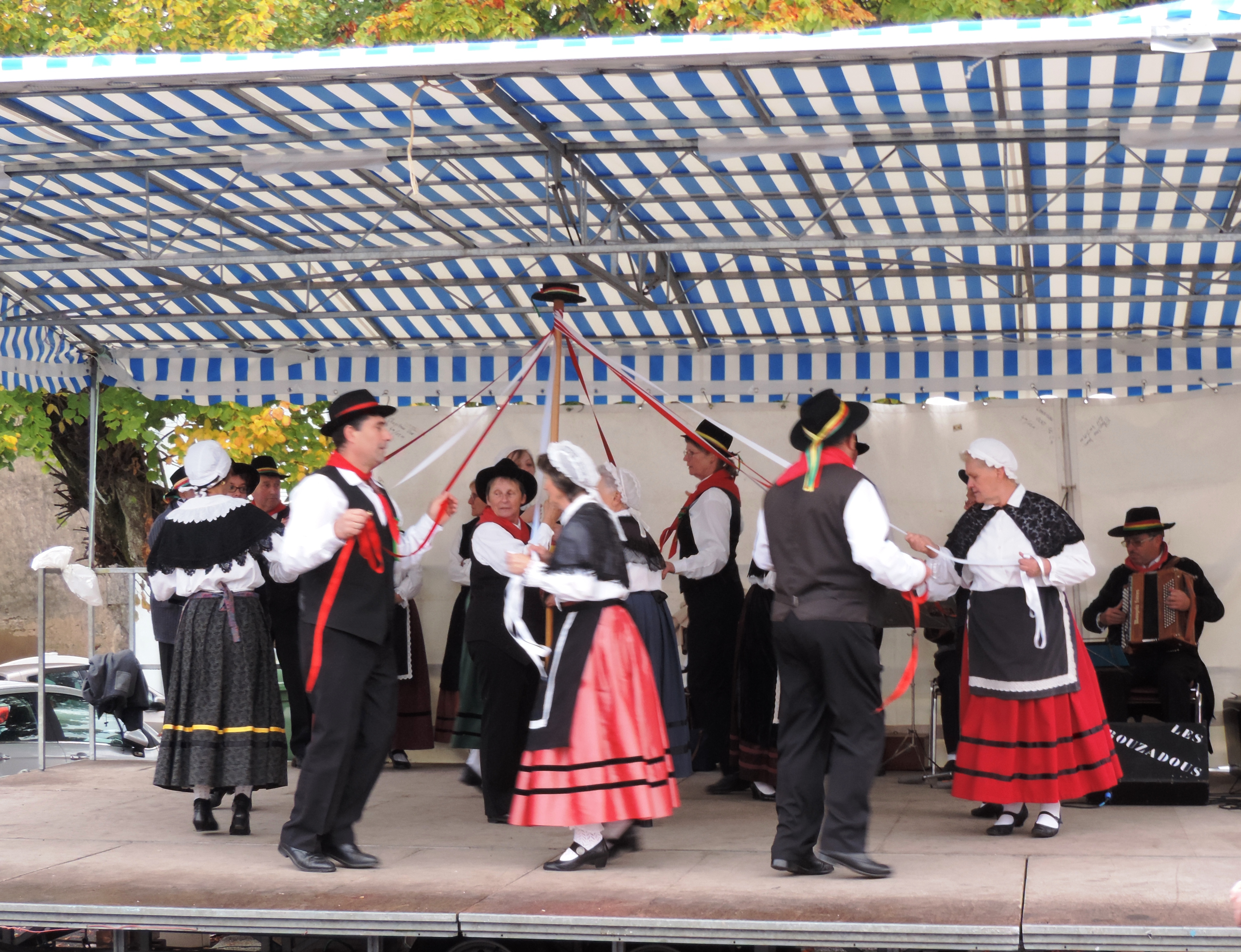 Folk Dancing in Saint-Priest-des-Champs